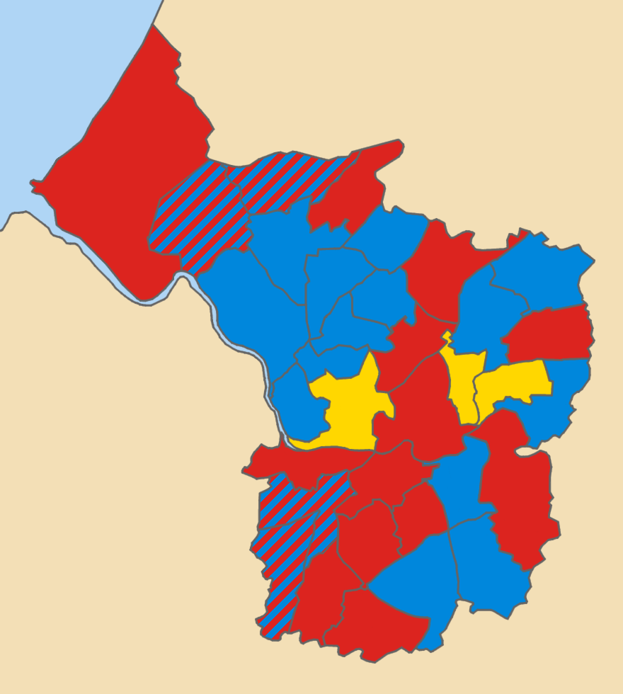 Results of the 1983 local elections in Bristol Colours: Conservative Labour SDP-Liberal Alliance